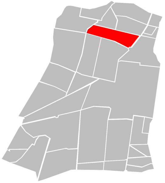 Map of Delegación Cuauhtémoc in Mexico City, with Unidad Habitacional Nonoalco-Tlatelolco highlighted in red